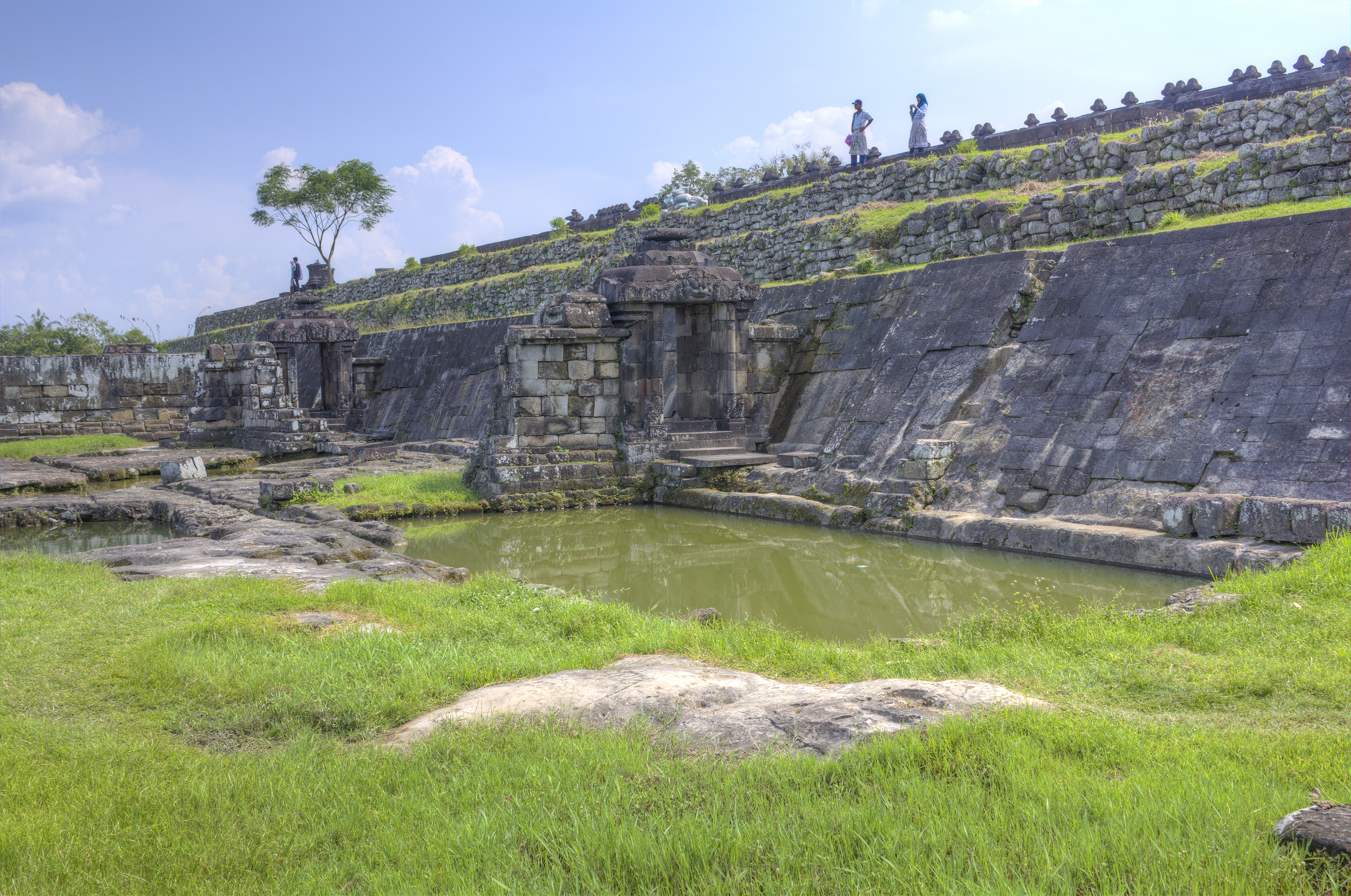 Pools at Ratu Boko, 2014-03-31